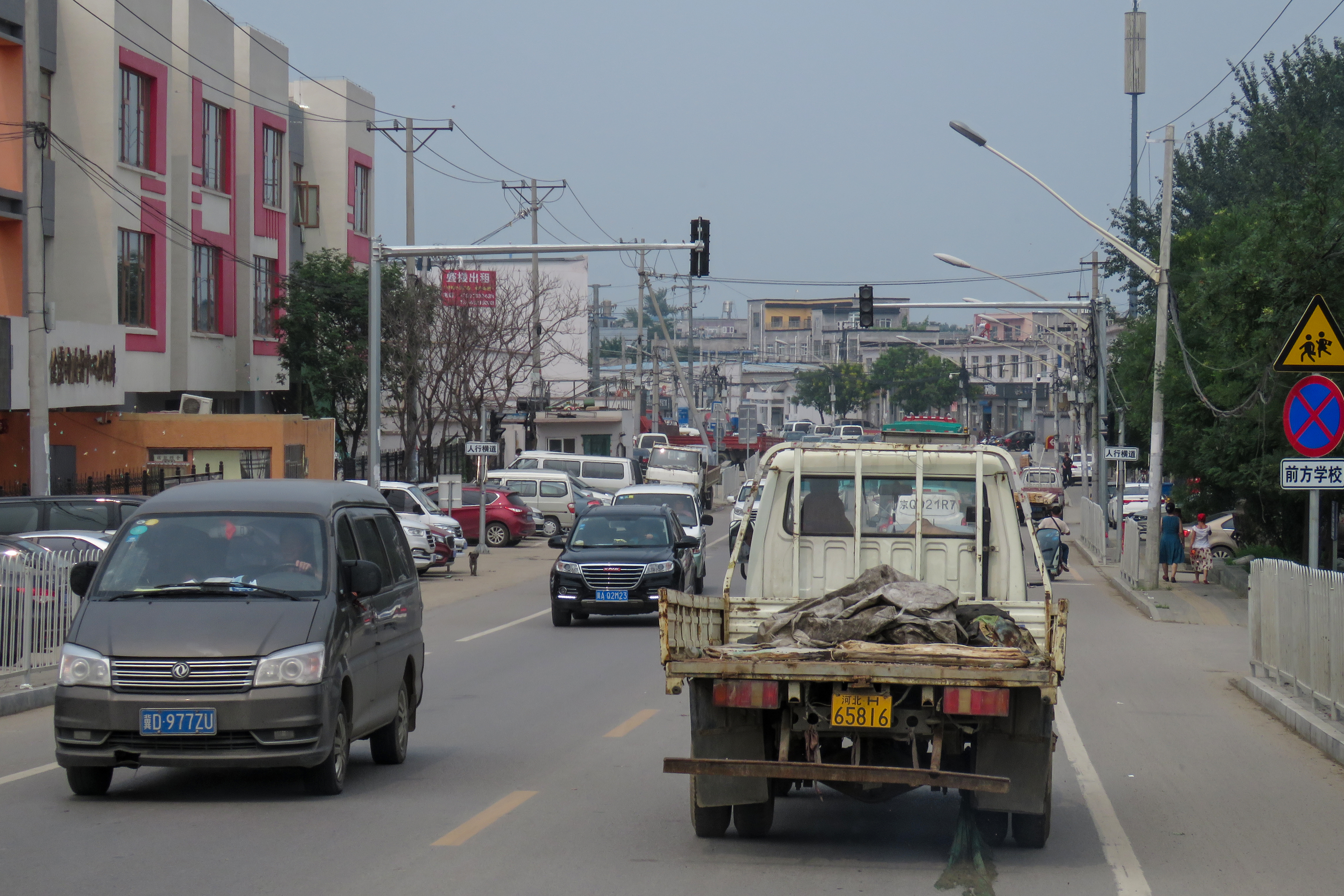 Picun (皮村) is a village in Jinzhan, the top-east of Chaoyang District, Beijing. Can this village south of Capital Airport be regarded as the Beijing version of Kowloon Walled City?